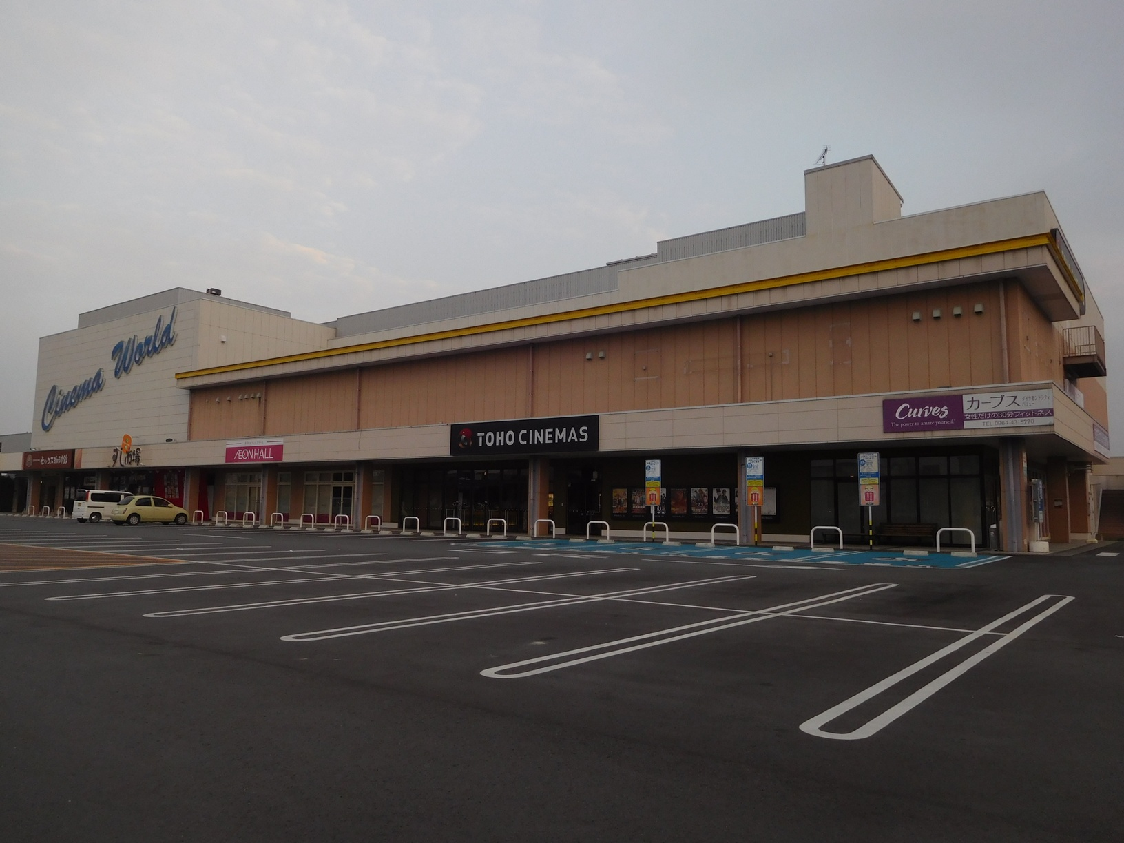 Aeonmall Uki - North Land (Uki City, Kumamoto, Japan)